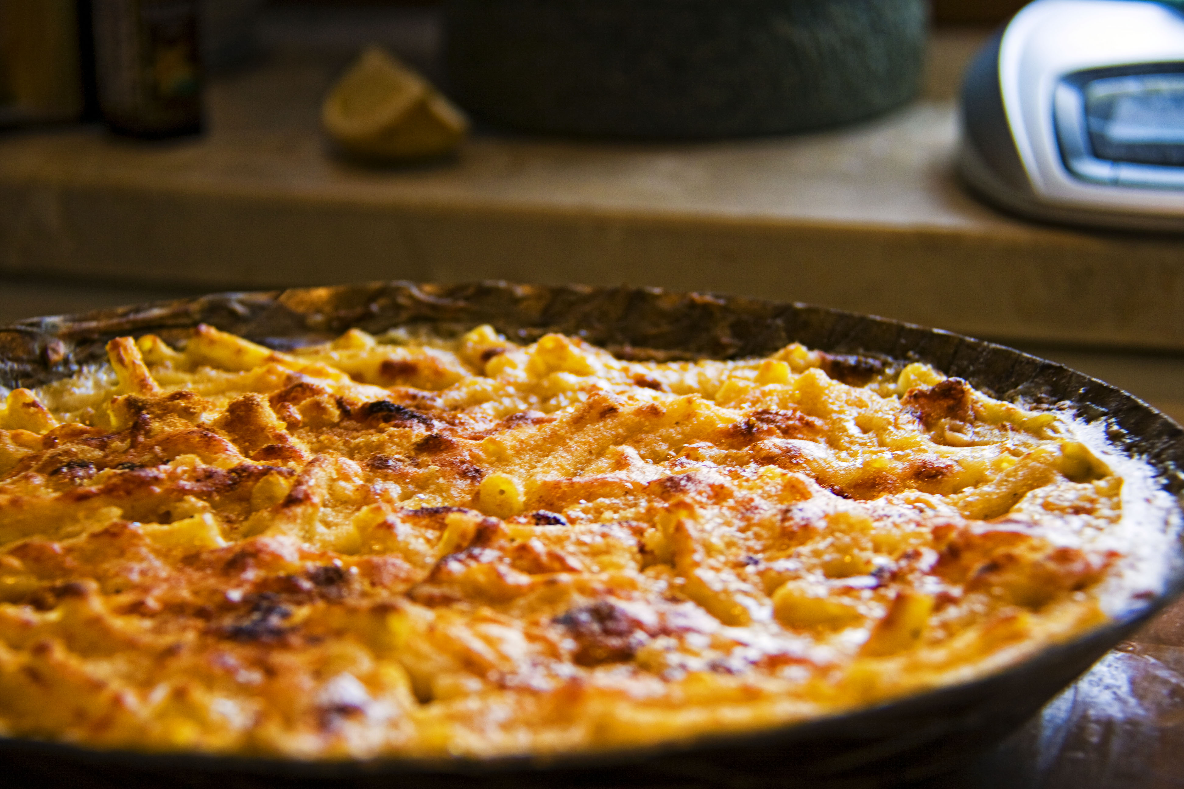 Baked macaroni and cheese